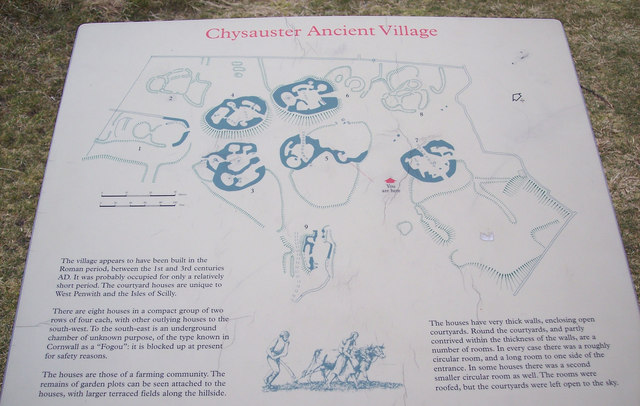 Chysauster Ancient Village High on the bleak down stands the Iron Age settlement of Chusauster. Eight houses, four on each side of a short 'street', each with a garden and courtyard. The houses were occupied from around the 1st century BC and abandoned some 300 years later. Apart from the loss of the thatched roofs, they have survived remarkably well.